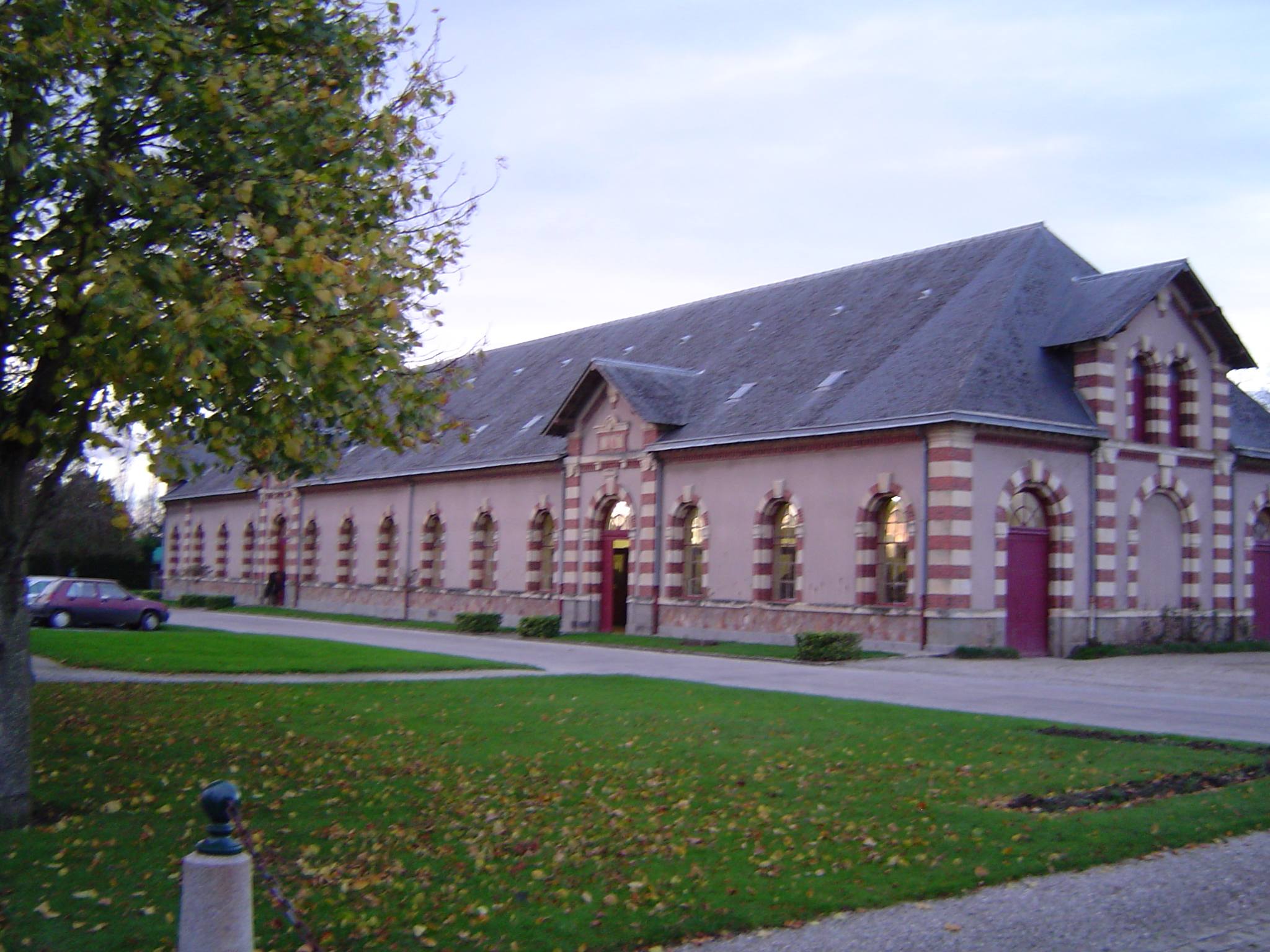 the natinal haras of Saint-Lô